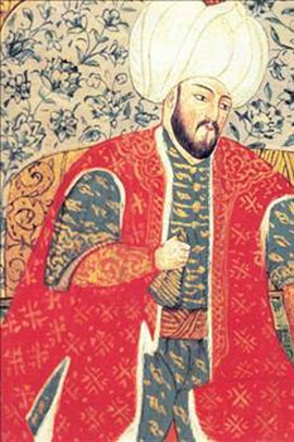 Prince Şehzade Mustafa, the eldest son of Sultan Süleyman the Magnificent (1515-1553)